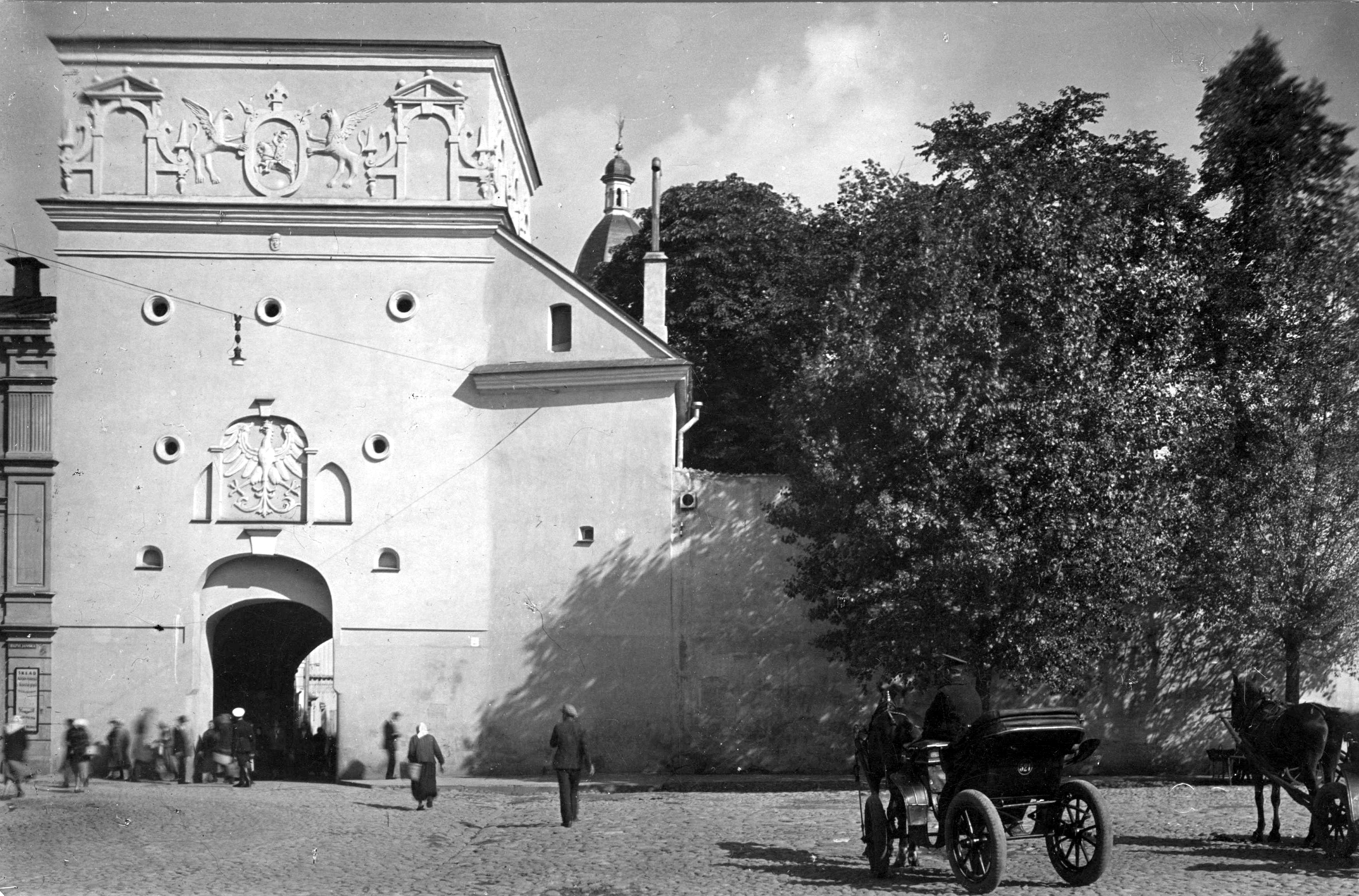 The Gate of Dawn is a city-gate of Vilnius, the capital of Lithuania. Visible coat of arms of Lithuania and the coat of arms of Poland.